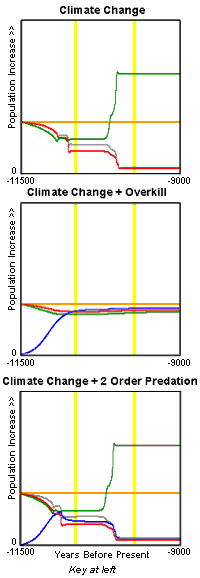 Pleistocene Extinction Model (PEM)simulation results for Exogenous Climate Change (13.5%), Overkill Plus Exogenous Climate Change, and Second Order Predation plus Exogenous Climate Change.